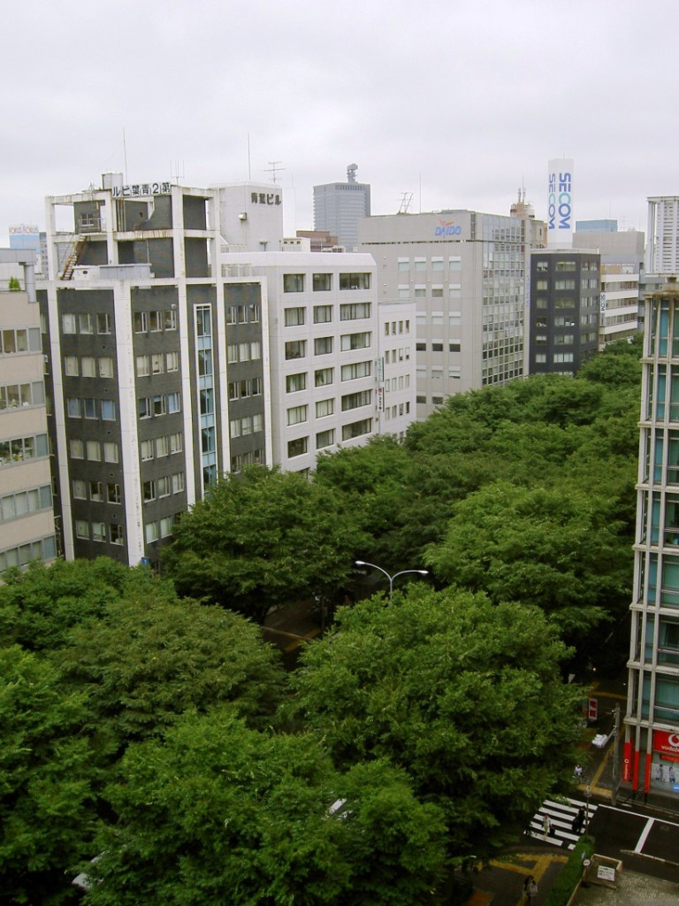 Aoba-dori Avenue with lush street trees of Keaki. This is one of the main streets in Sendai, Japan.